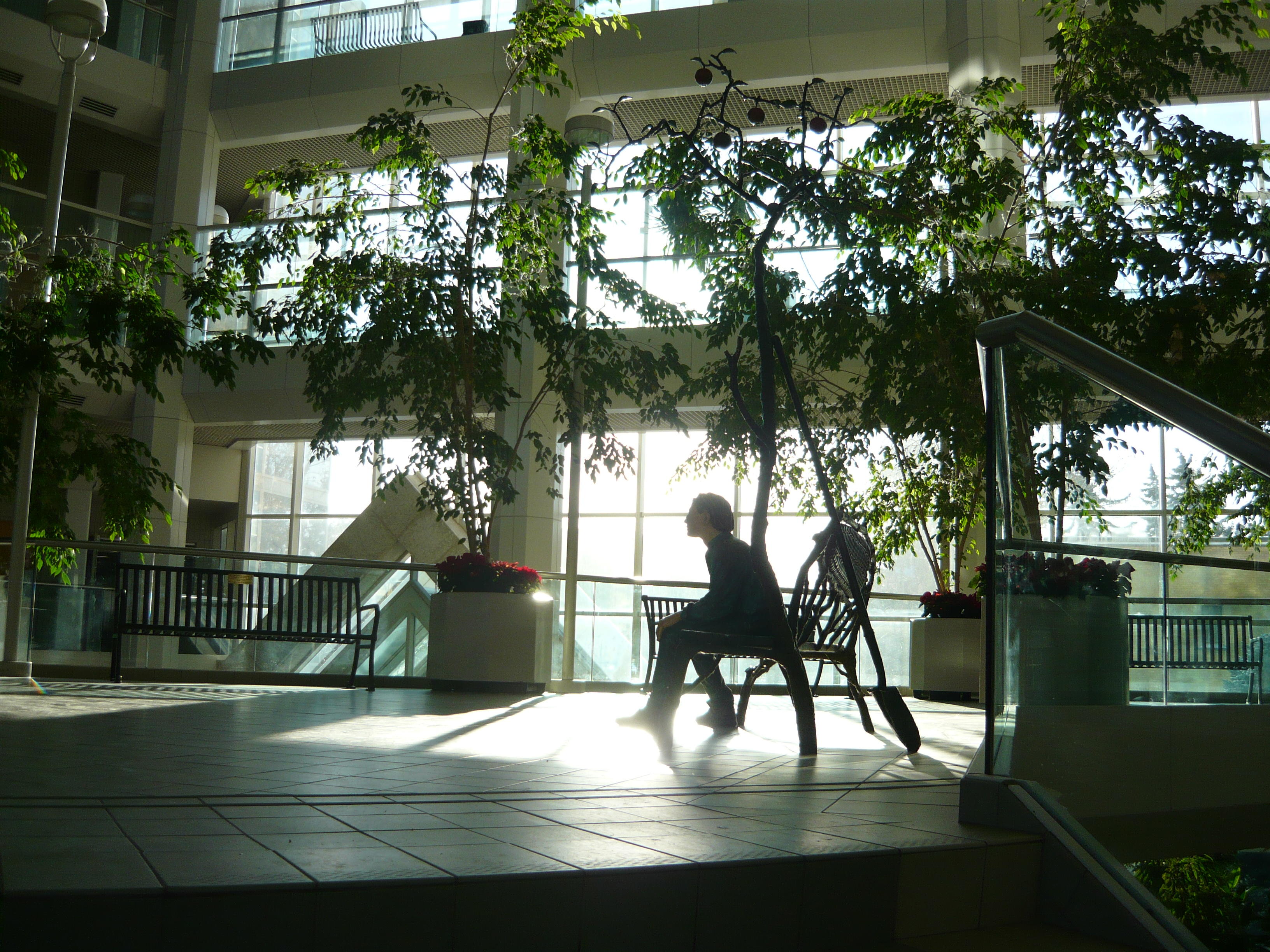 Sculpture in the atrium of the Agriculture Building, University of Saskatchewan, 51 Campus Drive, Saskatoon, Saskatchewan, Canada. The artwork is titled "Garden of the Mind" (1992) by Victor Cigansky.